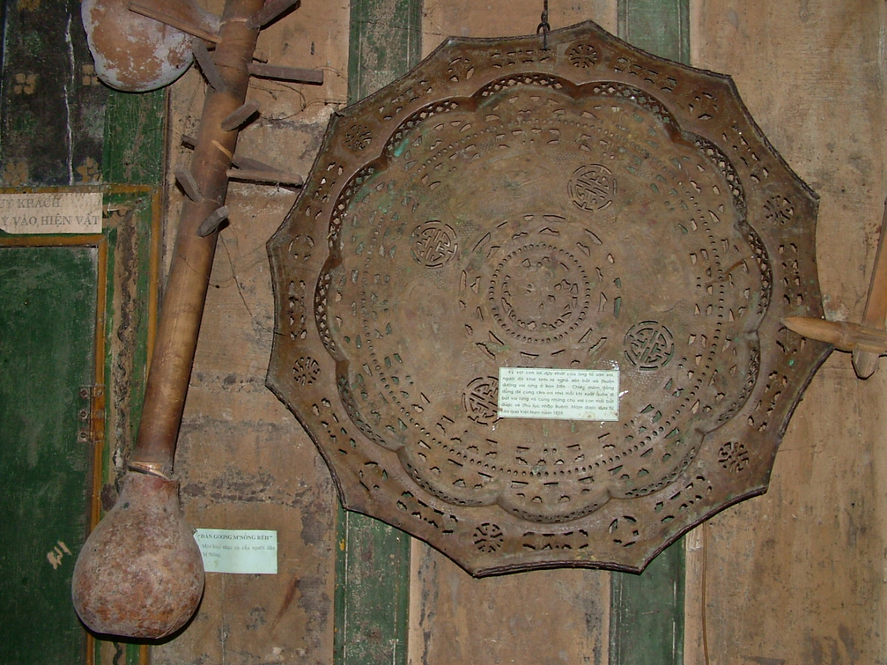 Đàn goong (Left. Hmong musical instrument) and the bronze tray of the king of Ban Don.